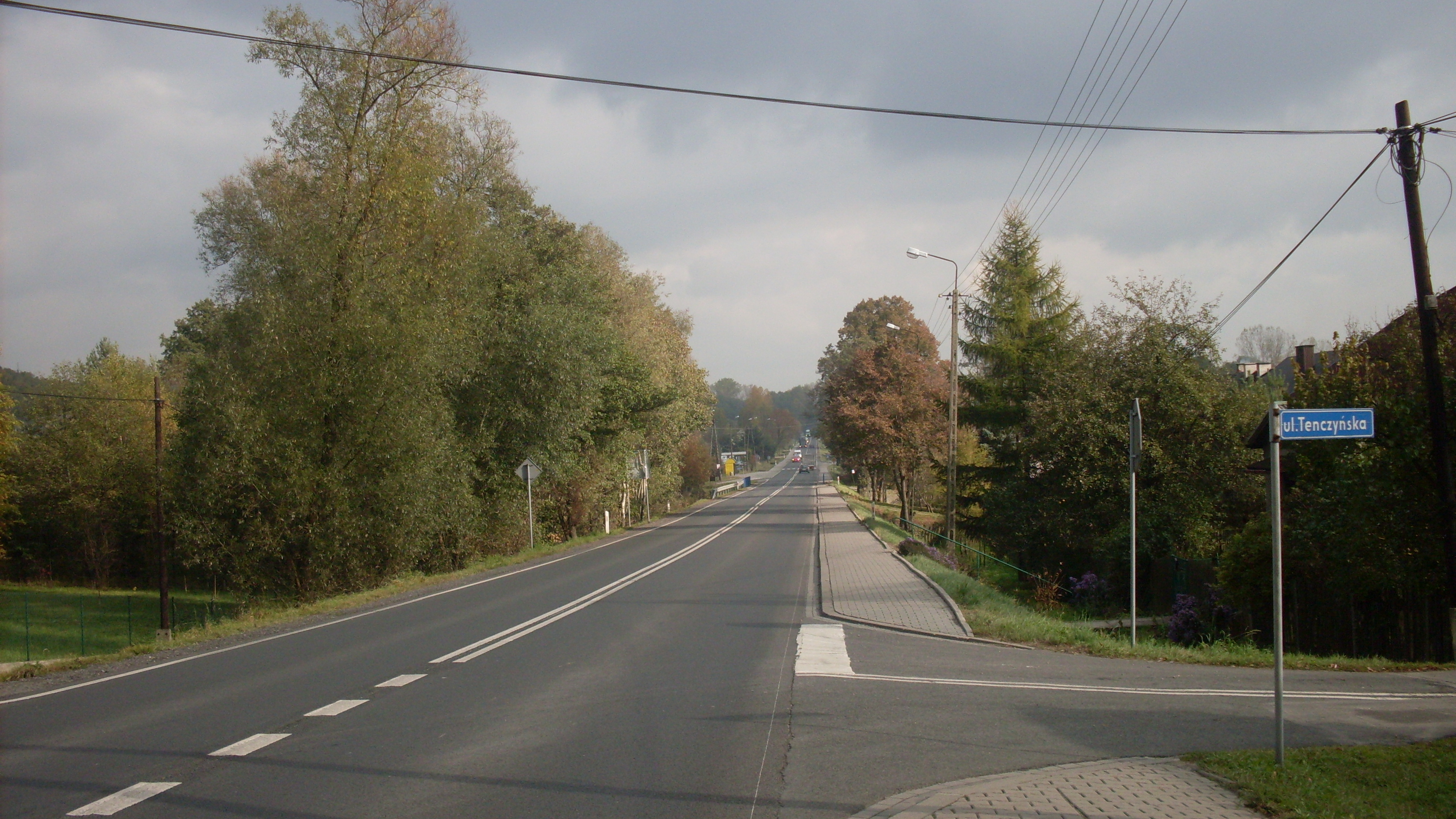 Dulowa. DK 79